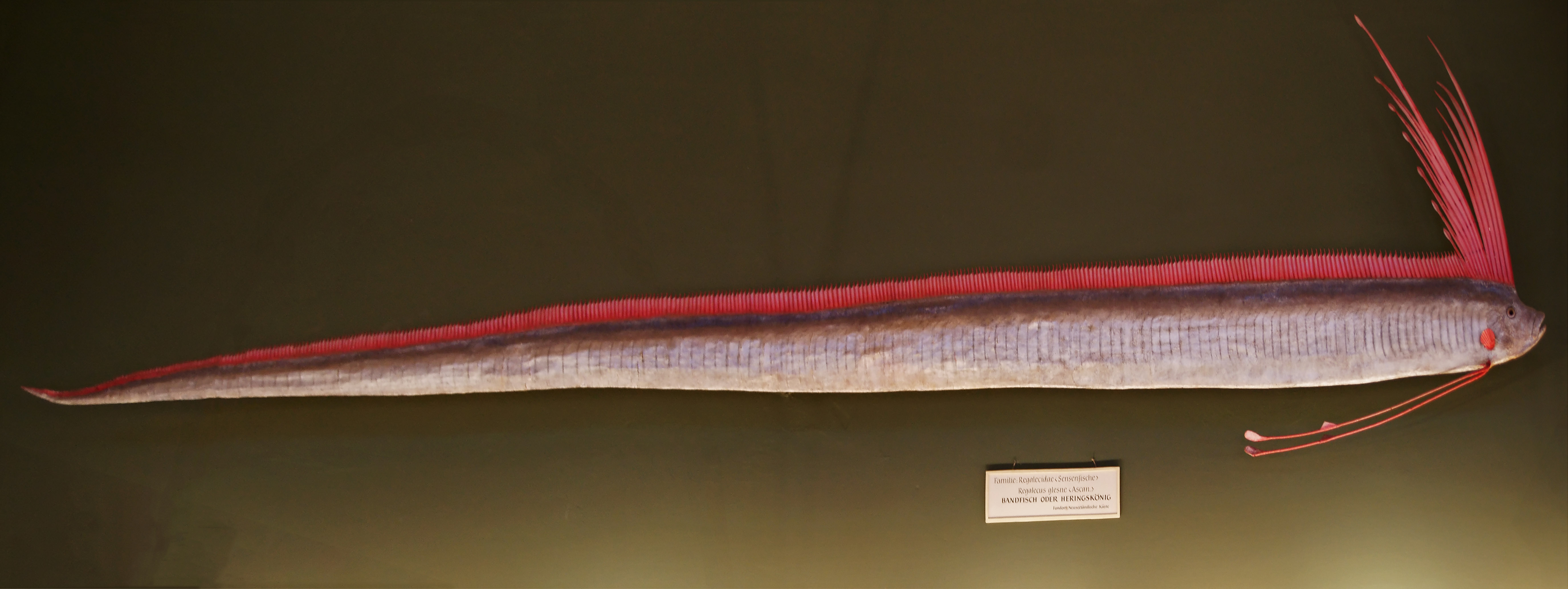 King of Herrings or Giant Oarfish Regalecus glesne, Naturhistorisches Museum Wien.